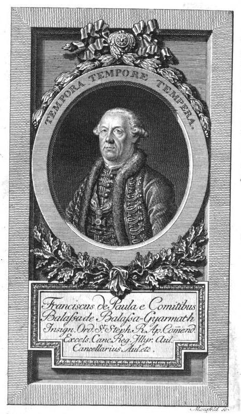 Engraving of Count Francis Balassa in the German–Serbian dictionary published in Vienna in 1791